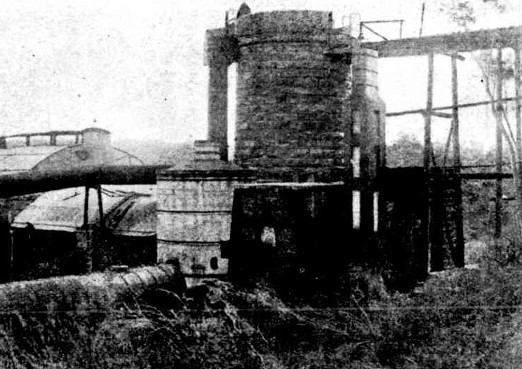 The blast furnace, heating stoves and gantry of the Fitzroy Iron Works in 1896. This view is from The downcomper pipe that carried the furnace off-gases is shown.